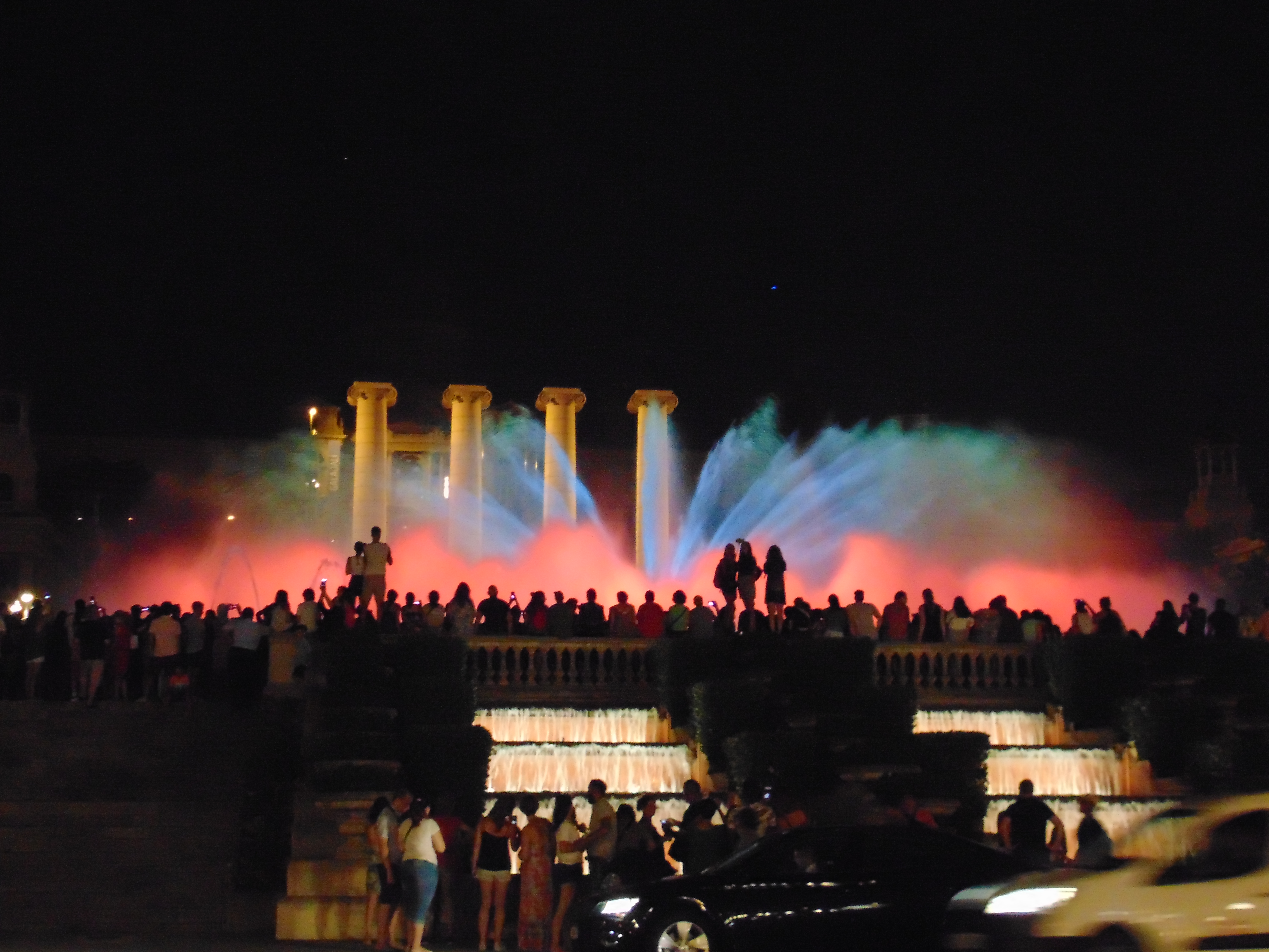 Magic Fountain of Montjuïc at night